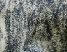 Verdino Brindle, Presa Canario, "Sanders Mateo." Son of Proud Mufasa Barbarian x Vilma de Casa del Presa.